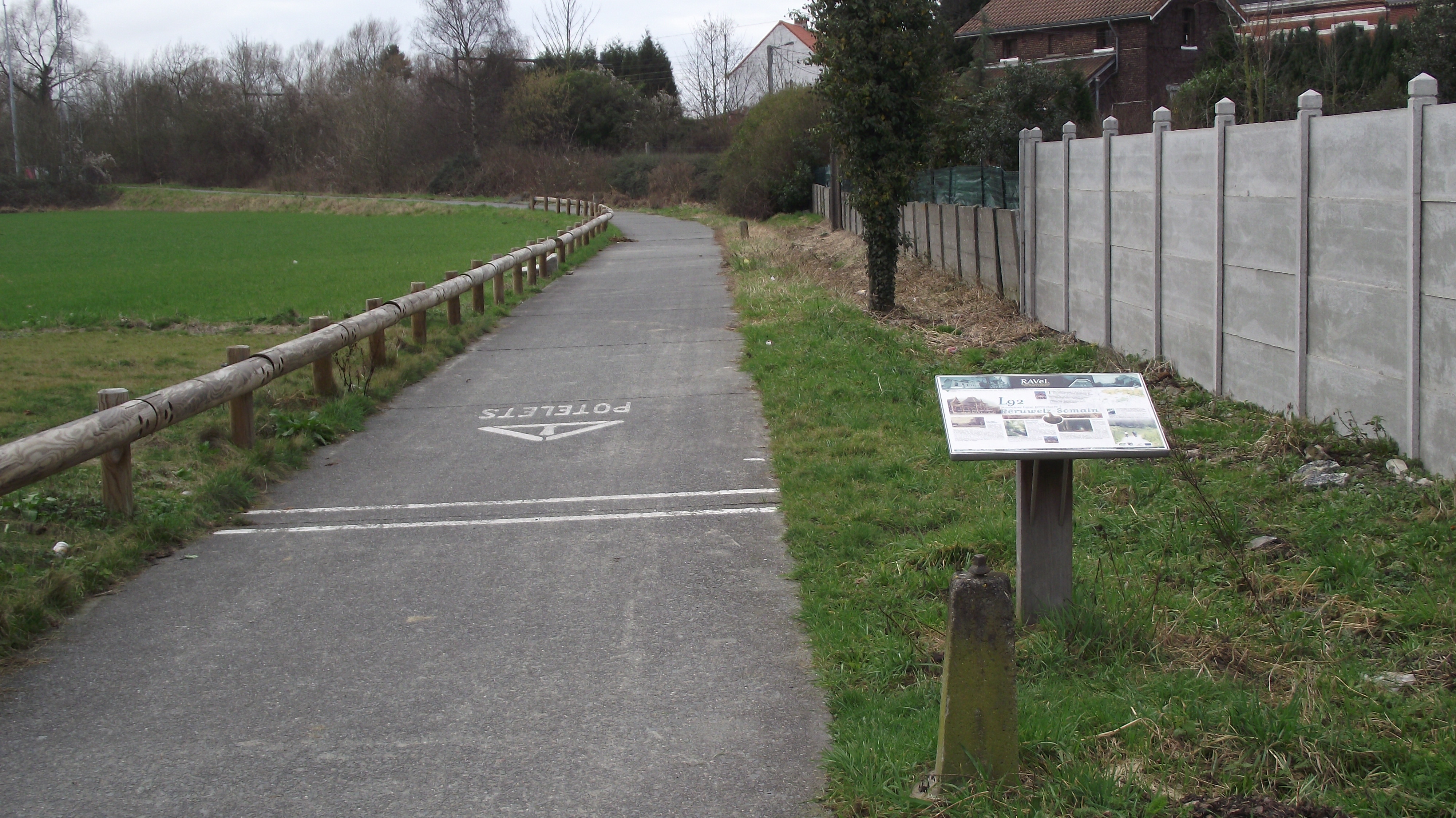 Start of the RAVEL bikeway from Péruwelz along the former international railway Péruwelz - Somain with explanatory poster.